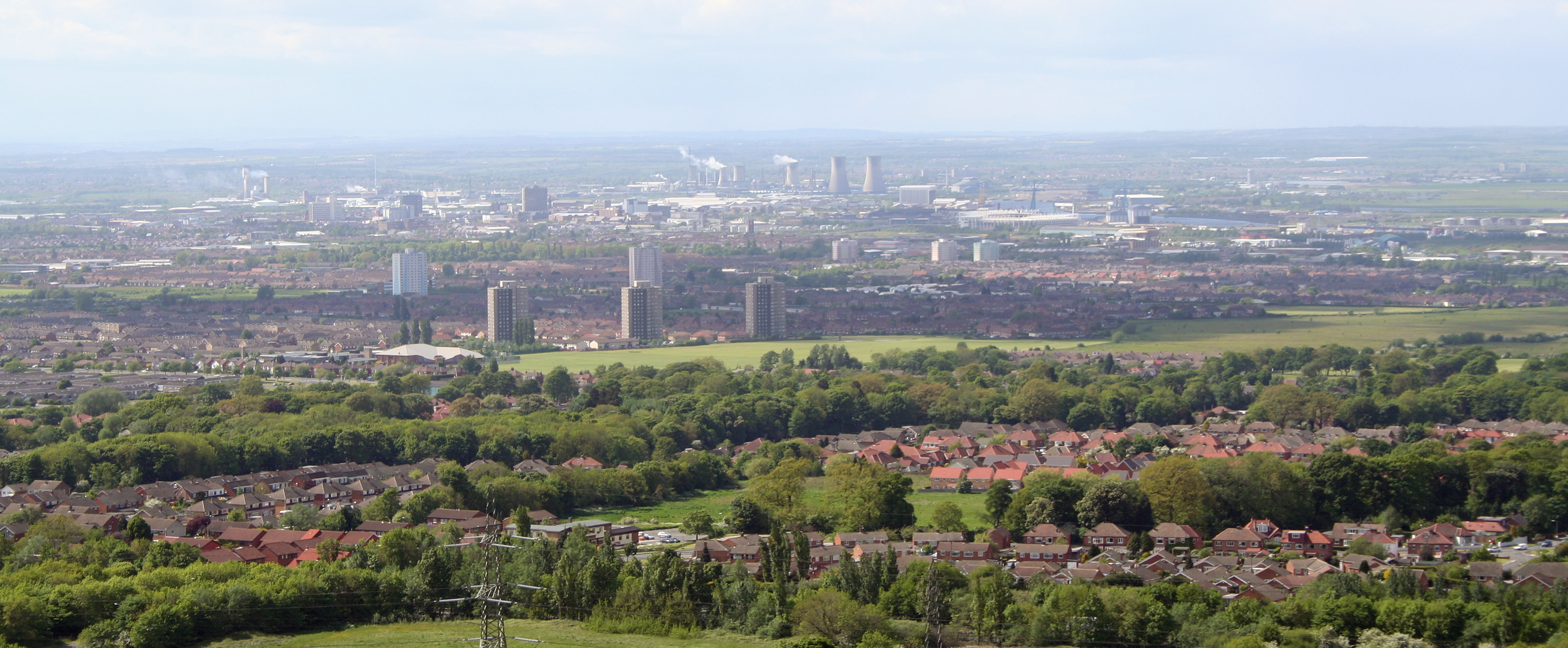 Panoramic view of Middlesbrough looking north-west from the Eston Hills. By ChrisO, 29 May 2006